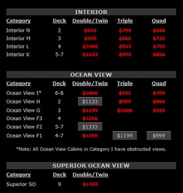 (cropped) Screenshot of Pricing of the 70000 Tons of Metal Festival 2013